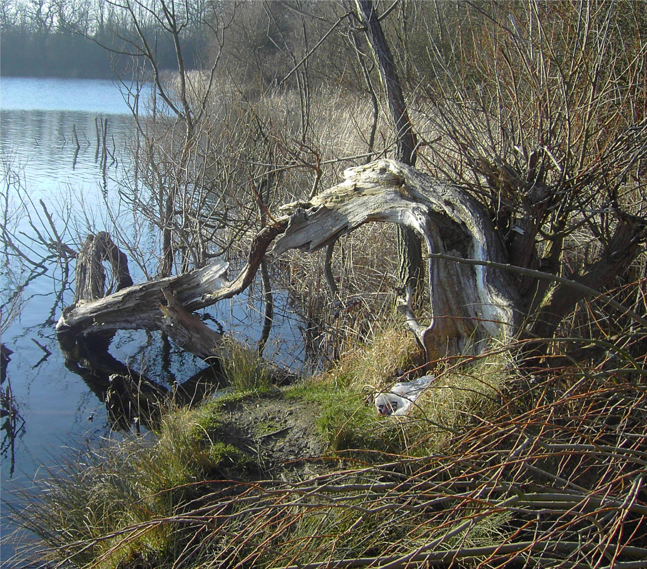 Tree root in the Blue Lagoon, Milton Keynes. I took the photo on a visit to the lagoon